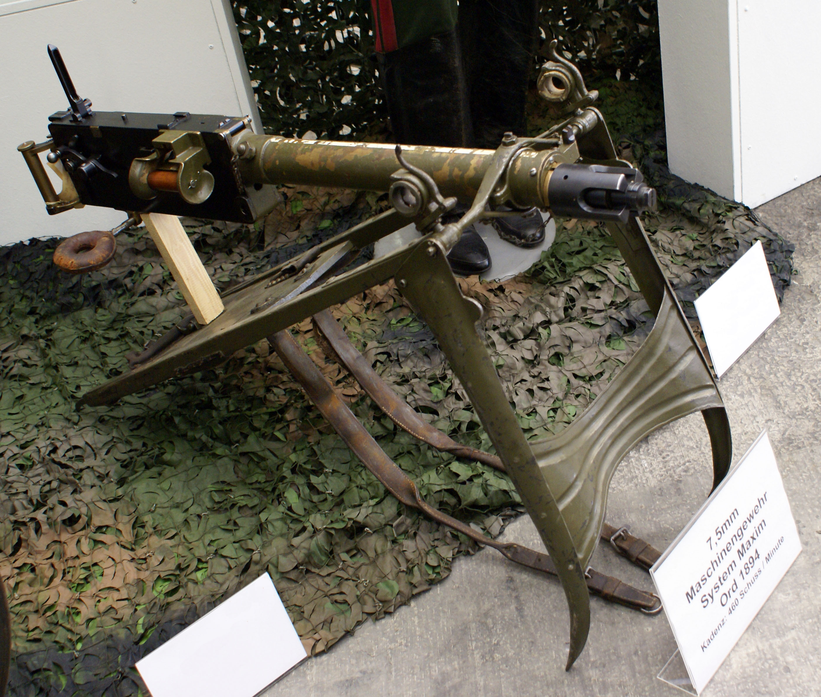 Swiss Army. 7.5mm MG Maxim Ord. 1894. Swiss Army Museum.